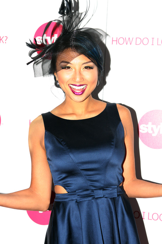 US Reality TV Star And Fashion Expert Jeannie Mai in Sydney, by Eva Rinaldi 'How Do I Look' was the topic of conversation at King's Cross Barrio Chino tonight. US reality television star Jeannie Mai and host of the 'How Do I Look' show was the main attraction. The red carpet came out as Jeannie and a few familiar Sydney faces did their walks and poses. Then there was the cocktail party which as everyone knows is where lots of gossip gets repeated and people gather around, just making sure they didn't miss out on any goss. The new show will premiere on Australian pay TV on Thursday 3rd November on the 'Style' channel. Come November it's tipped new water cooler conversations by females across Australia will do doubt cover 'How Do I Look'? Websites Jeannie Mai official website How Do I Look? website Eva Rinaldi Photography Eva Rinaldi Photography Flickr Splash News